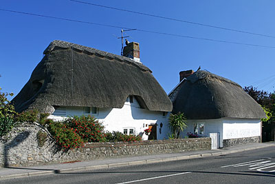 Iron Latch Cottage in Selsey, Sussex, England